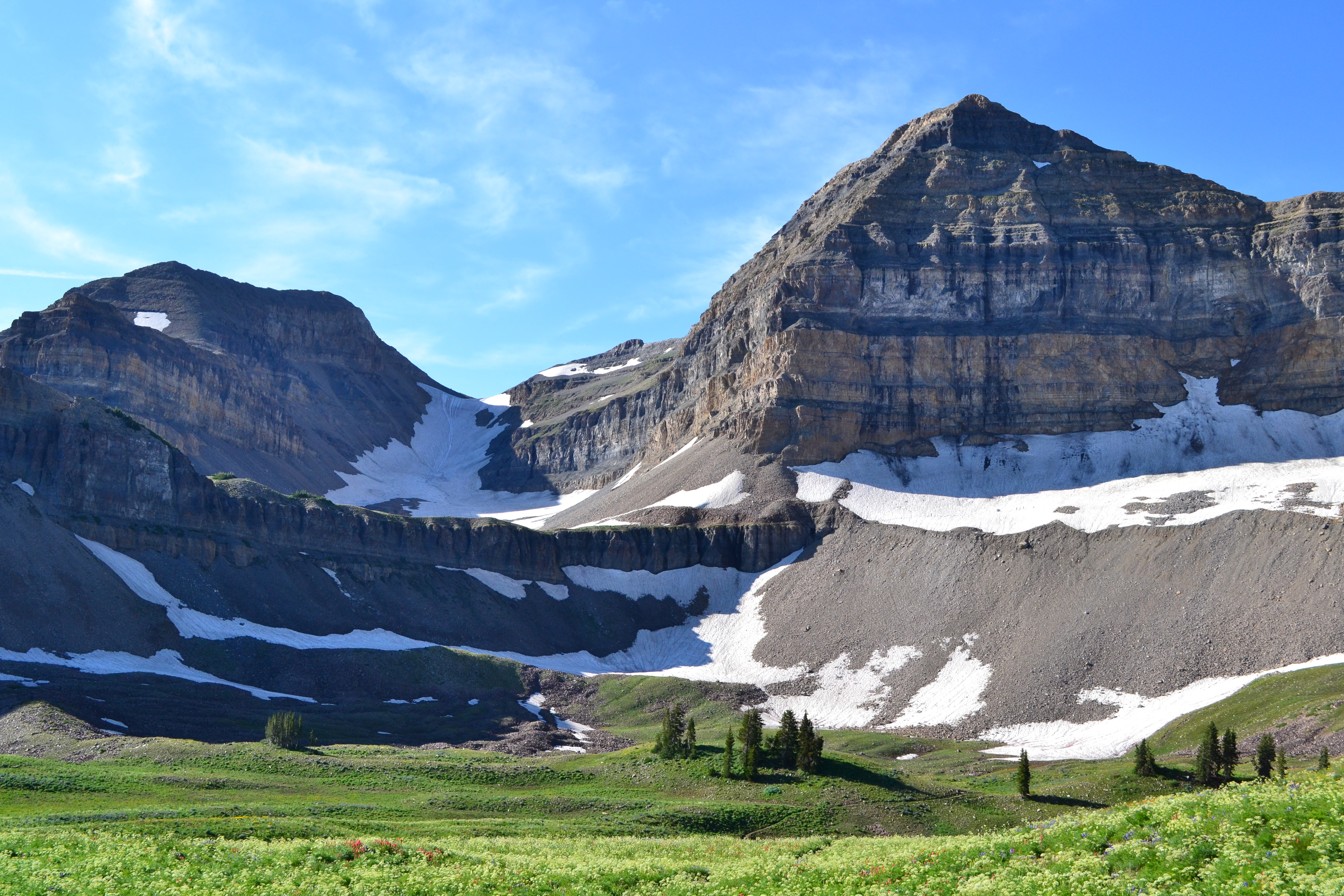 Mount Timpanogos, (Utah, USA). To the left of the summit is "Timp Glacier"